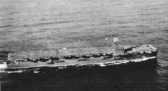 Gambier Bay (CVE-73), US Navy photo img url